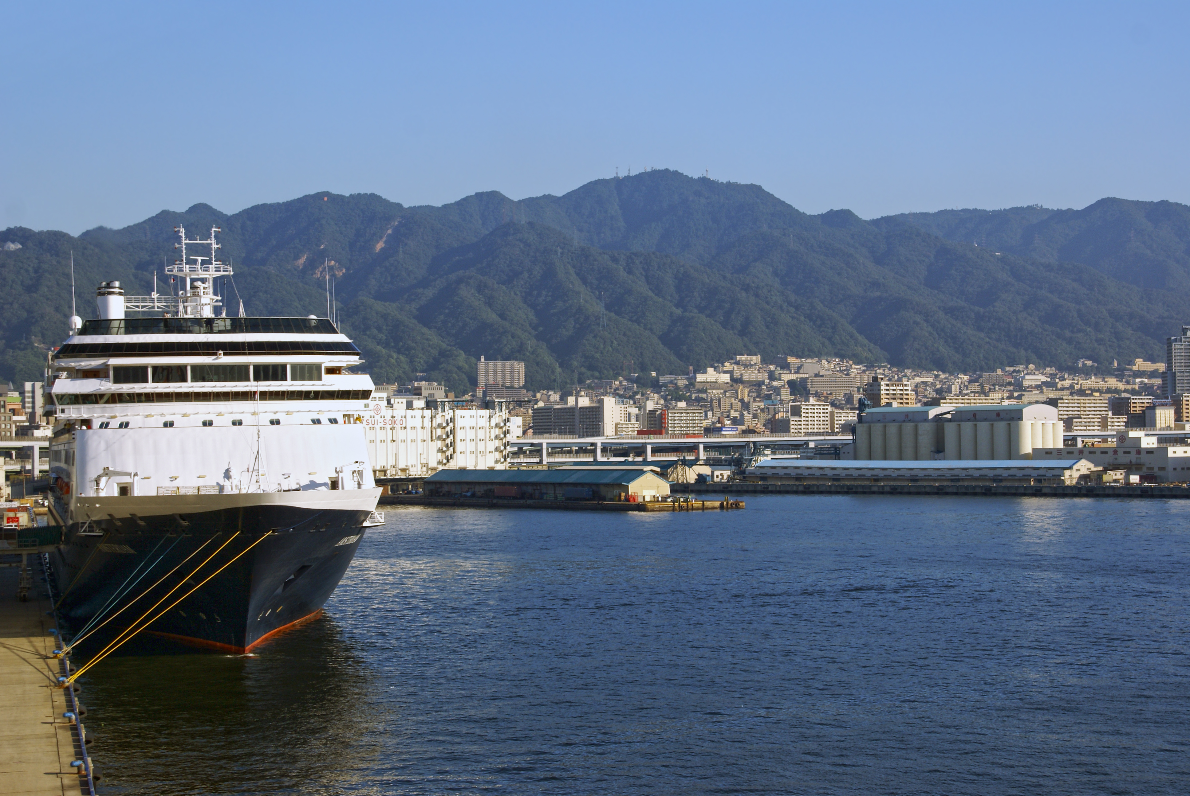 "Amsterdam" at "Kobe Port Terminal" of the Kobe harbor ( Kobe, Hyogo prefecture, Japan)